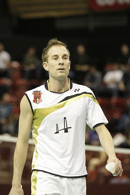 Peter Gade, Wilson Swiss Open 2010